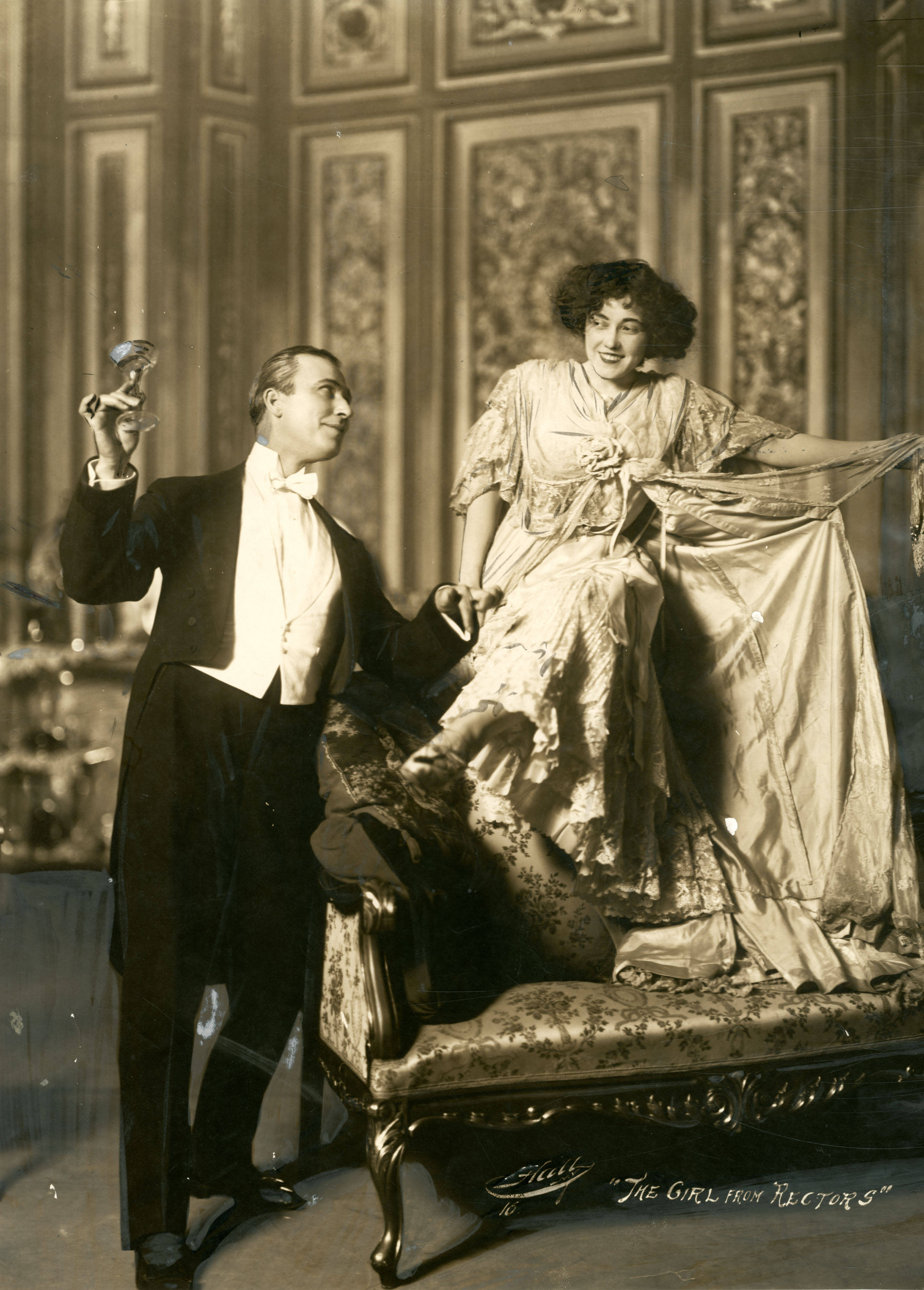 A scene from "The Girl from Rectors," which opened Aug. 1, 1909, at the Moore Theater, Seattle. Subjects: plays